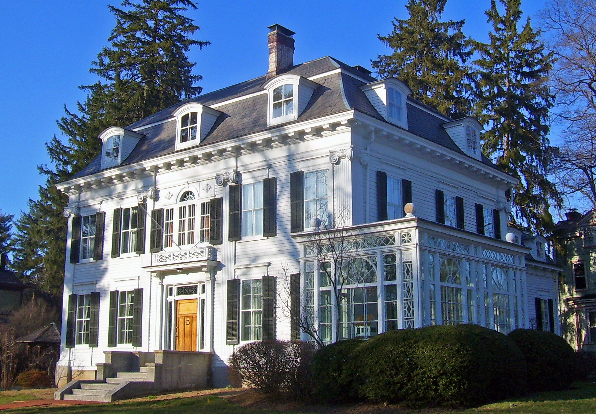 Villa Fontana, the Morristown, NJ, USA, home of editorial cartoonist Thomas Nast; it has been designated a U.S. National Historic Landmark.